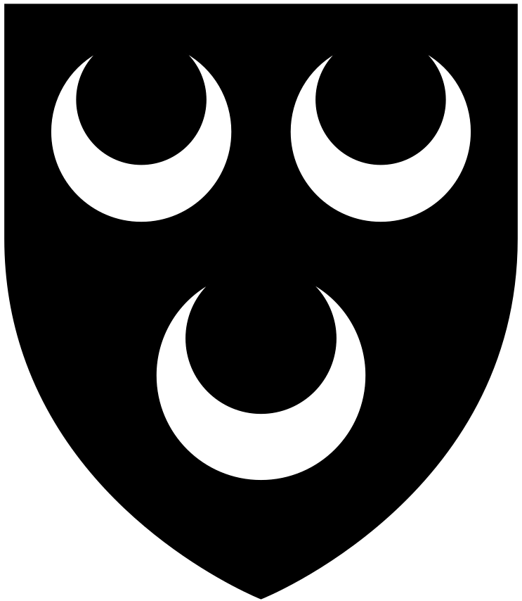 Arms of Harris of Radford in the parish of Plymstock in Devon: Sable, three crescents argent (Vivian, Lt.Col. J.L., (Ed.) The Visitations of the County of Devon: Comprising the Heralds' Visitations of 1531, 1564 & 1620, Exeter, 1895, p.447). A junior branch of this family was Harris of Hayne in the parish of Stowford in Devon, which differenced the arms with a bordure argent.